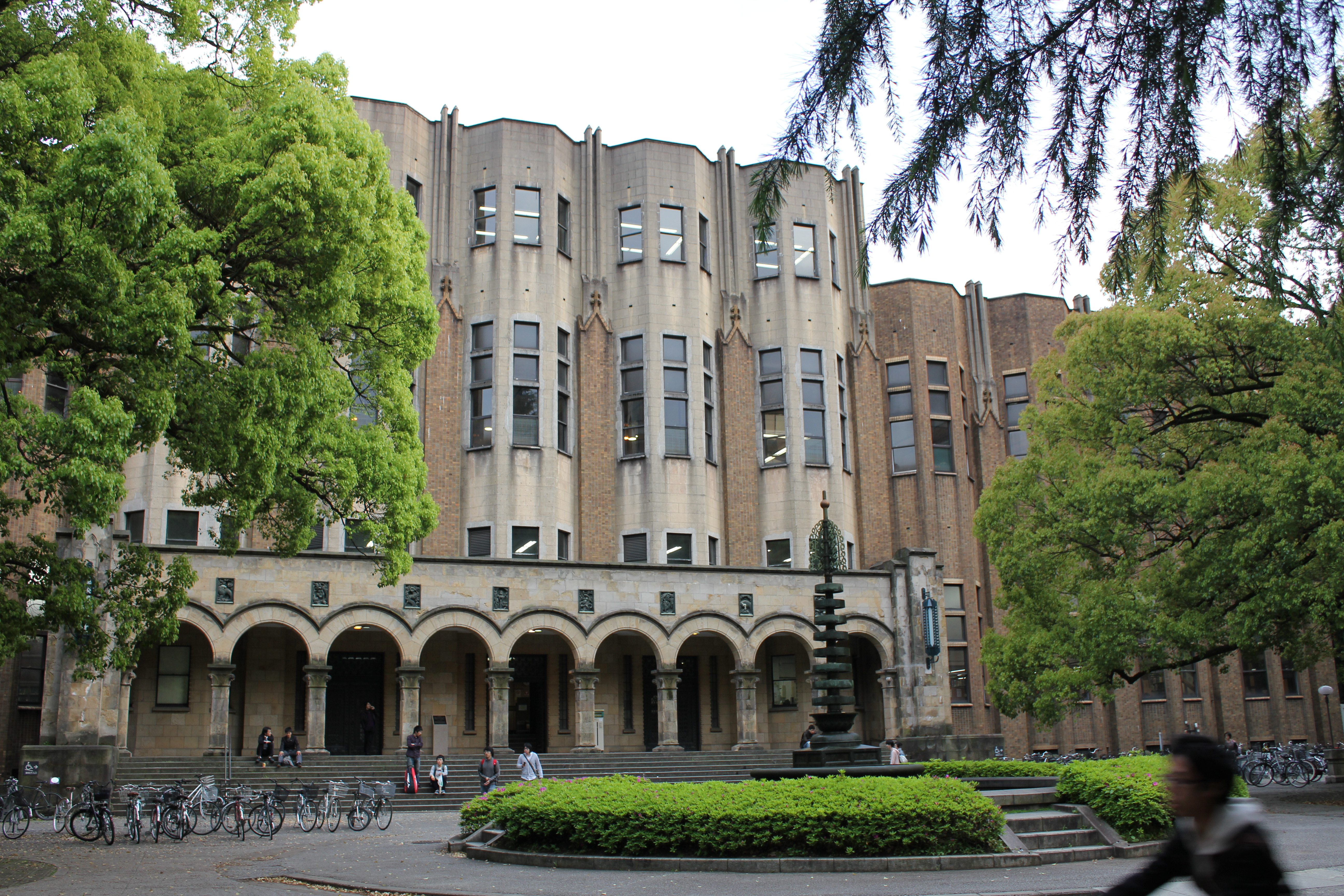 Entrance of the Tokyo University's main library, Hongo campus